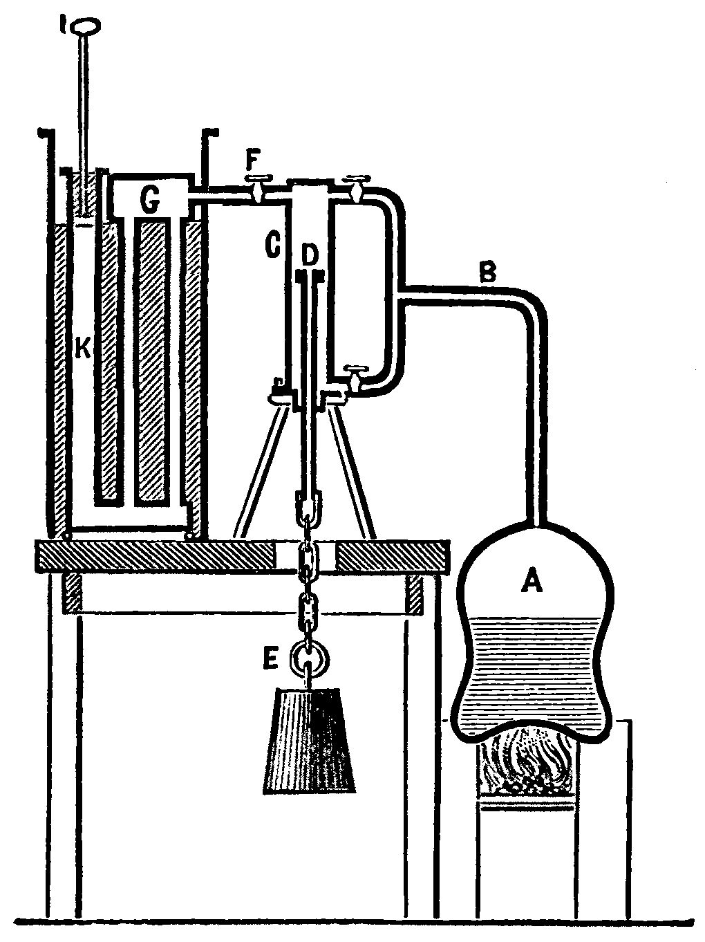 Figure of Watt's apparatus used to improve the efficiency of the steam-engine. Legend: A Boiler, B Steam inflow to double-acting Cylinder C, D Piston, E Weight, F Outflow/exhaust, G Condenser, I Airpump plunger, K Airpump cylinder.